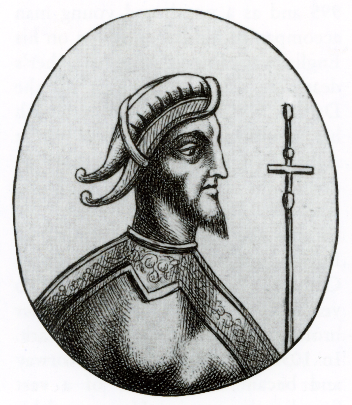 This PNG image has a thumbnail version at File: Sweyn drawing.jpg. Generally, the thumbnail version should be used when displaying the file from Commons, in order to reduce the file size of thumbnail images. Any edits to the image should be based on this PNG version in order to prevent generational loss, and both versions should be updated. See here for more information. Sweyn Forkbeard, c.970-1014, etching by unknown engraver, image taken from a coin. 15 x 8.5cm (6 x 3 3/8"). National Portrait Gallery (RN49478). National Portrait Gallery, London: Unknown NPG number While Commons policy accepts the use of this media, one or more third parties have made copyright claims against Wikimedia Commons in relation to the work from which this is sourced or a purely mechanical reproduction thereof. This may be due to recognition of the "sweat of the brow" doctrine, allowing works to be eligible for protection through skill and labour, and not purely by originality as is the case in the United States (where this website is hosted). These claims may or may not be valid in all jurisdictions. As such, use of this image in the jurisdiction of the claimant or other countries may be regarded as copyright infringement. Please see Commons:When to use the PD-Art tag for more information.See User:Dcoetzee/NPG_legal_threat for more information. This tag does not indicate the copyright status of the attached work. A normal copyright tag is still required. See Commons:Licensing.